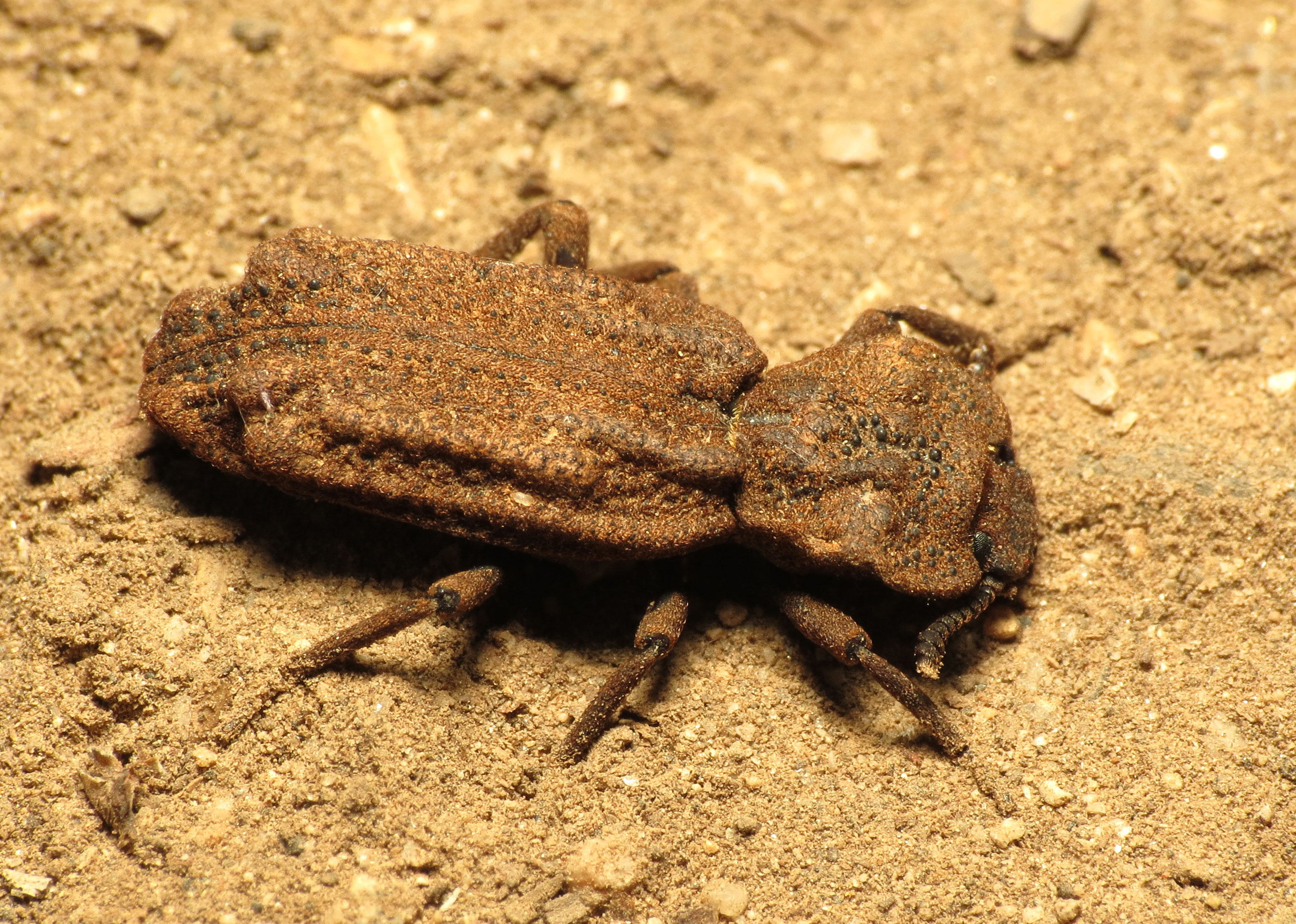 Phellopsis porcata. Sawtooth National Forest near Stanley, Idaho.